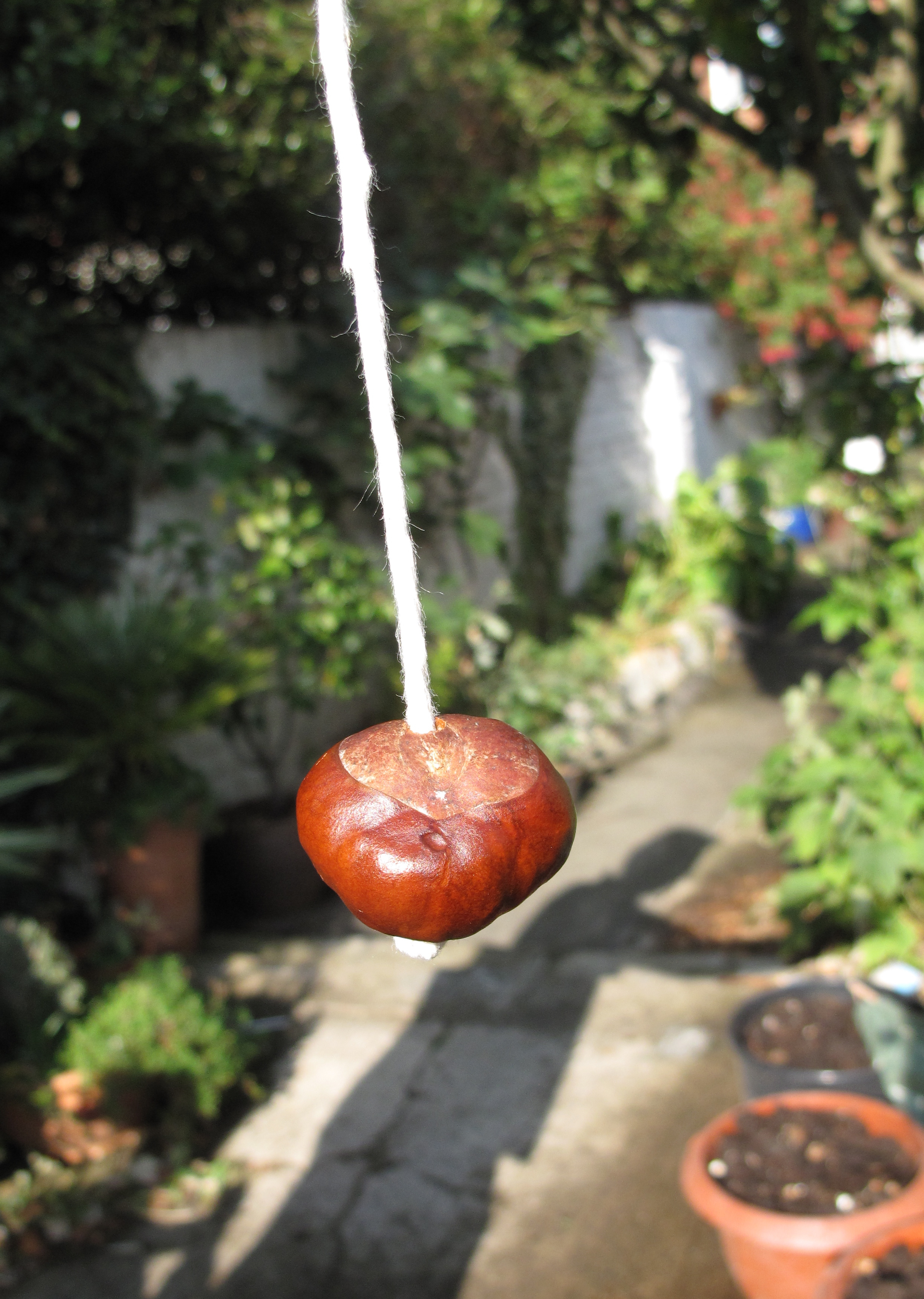 A horse-chestnut on a string, ready to play conkers